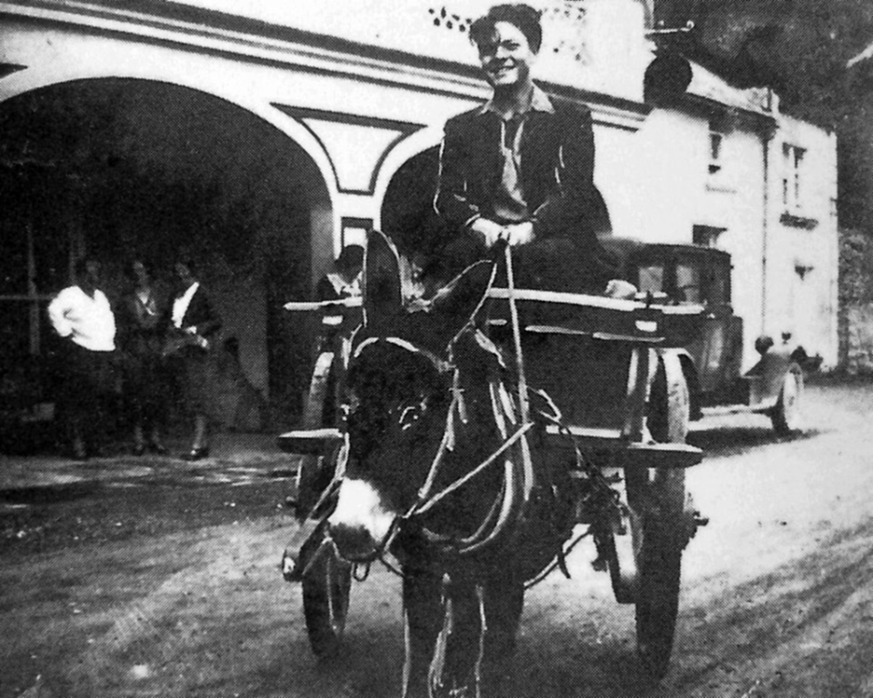 Photograph of Orson Welles in Ireland, driving a cart pulled by a donkey called Sheeogh. In August 1931 Welles arrived in Galway and embarked on a sketching tour of Ireland and the Aran Islands. In September he joined the Gate Theatre Company in Dublin.